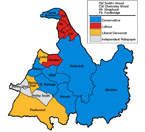 Ward map of Solihull Council with political colouring for the 1991 election.